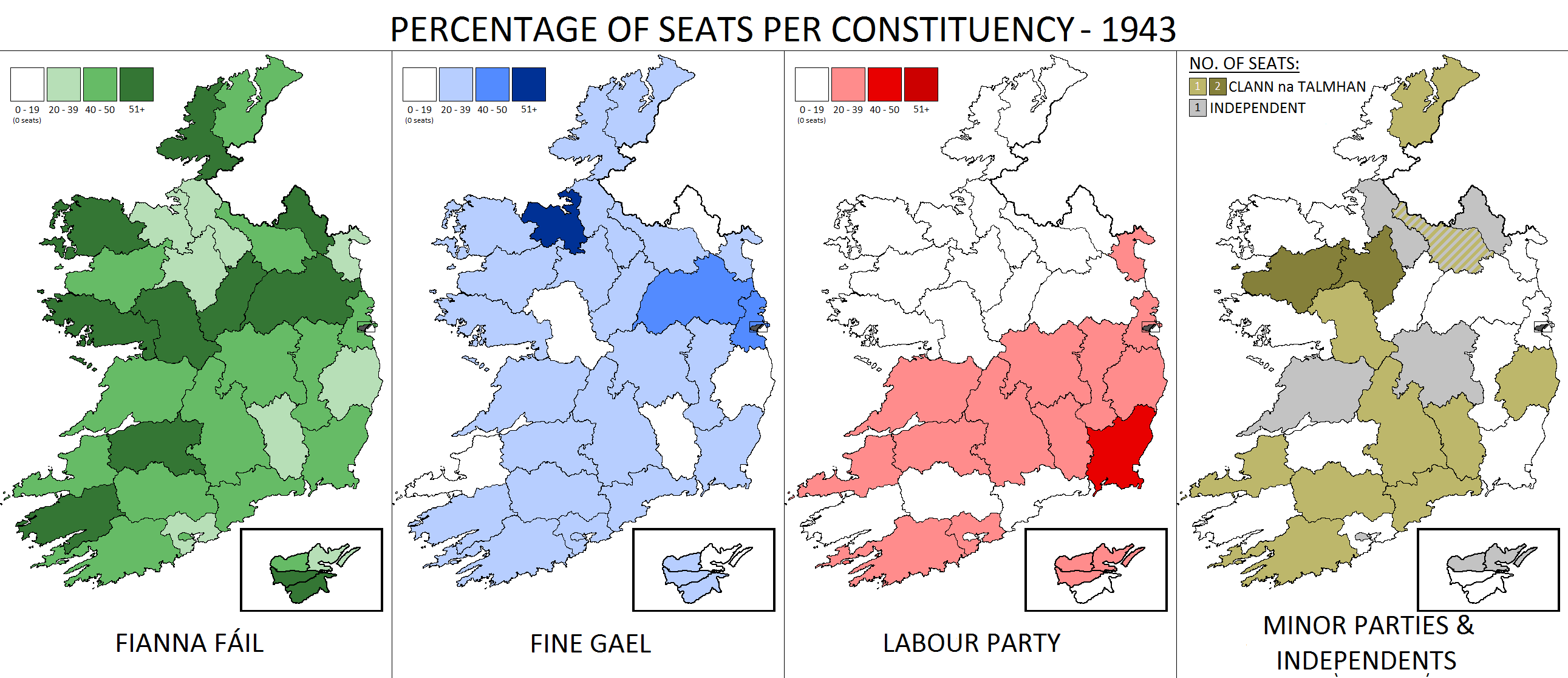 Graphical representation of the 1943 Irish general election results. Created by myself using data from Wikipedia and literary sources.